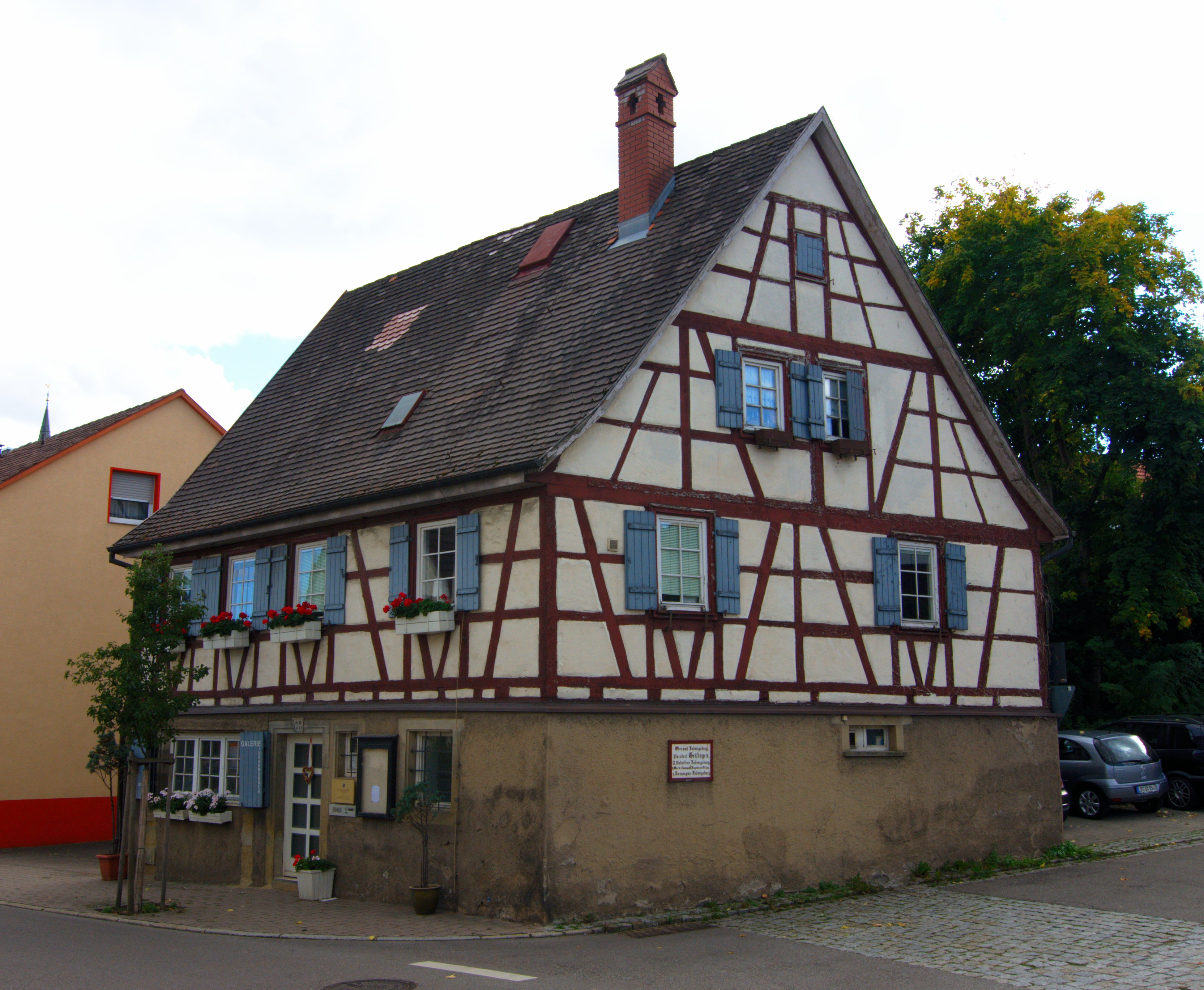 Old town hall of the former village of Geisingen in Freiberg am Neckar